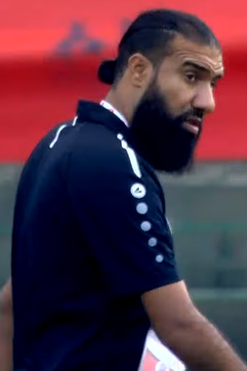 Abdul-Wahab Abu Al-Hail with Akhaa Ahli Aley during the 2019-20 Lebanese Premier League game against Ahed